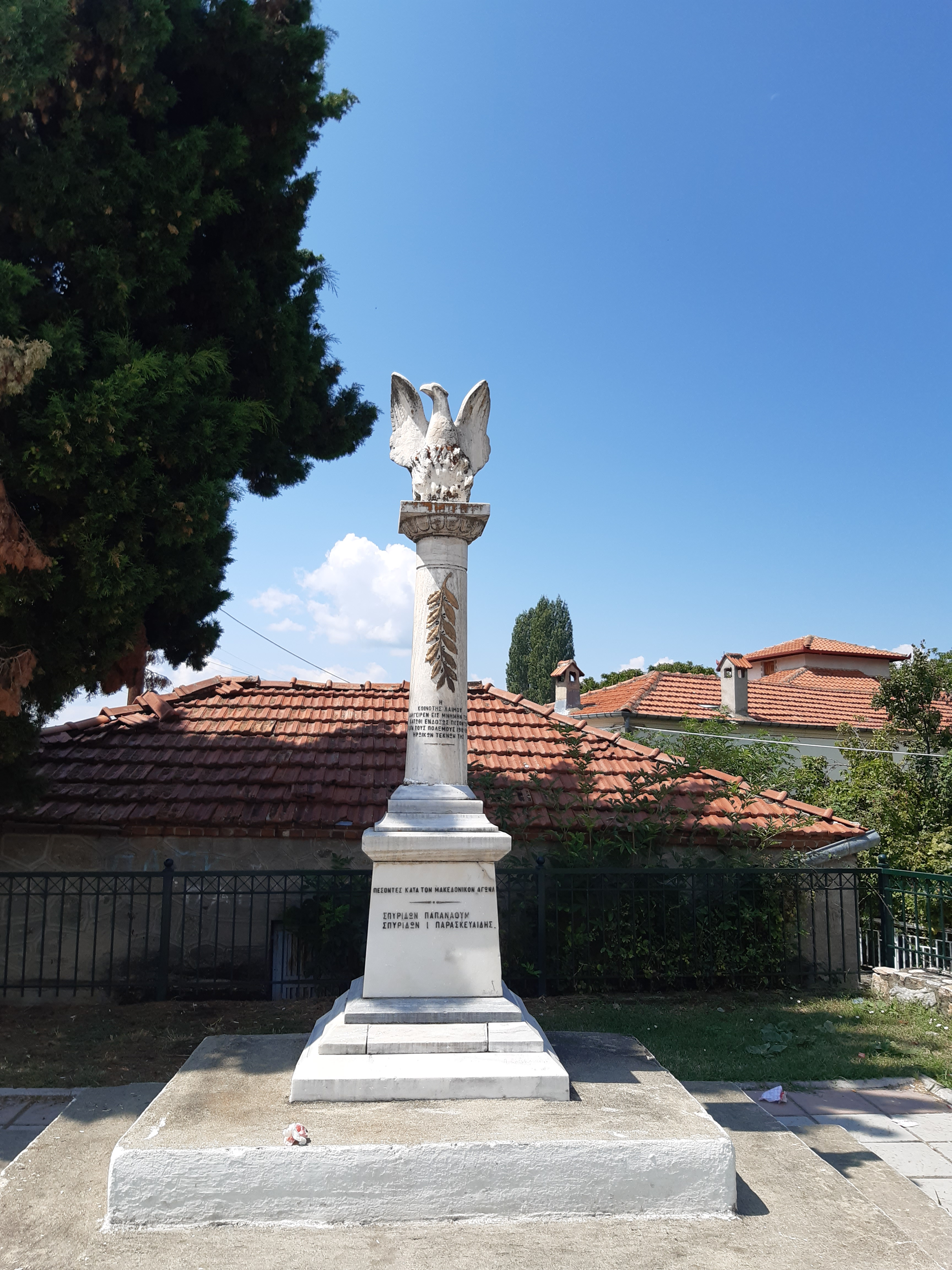 Military Monument in Rambi Laimos in August 2020